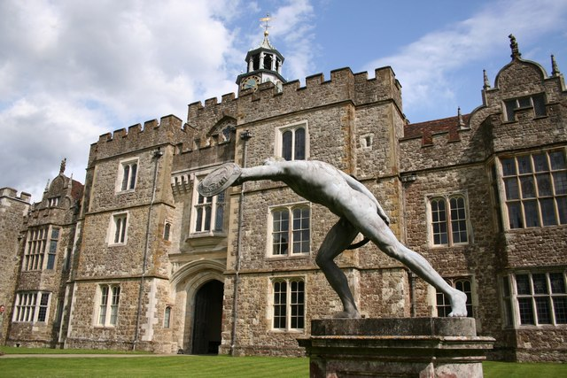 Borghese Gladiator and Bourchier's Tower